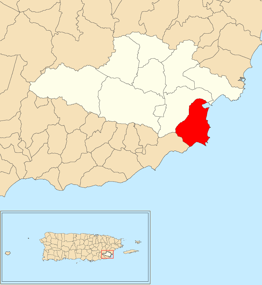 Camino Nuevo, Yabucoa, Puerto Rico locator map